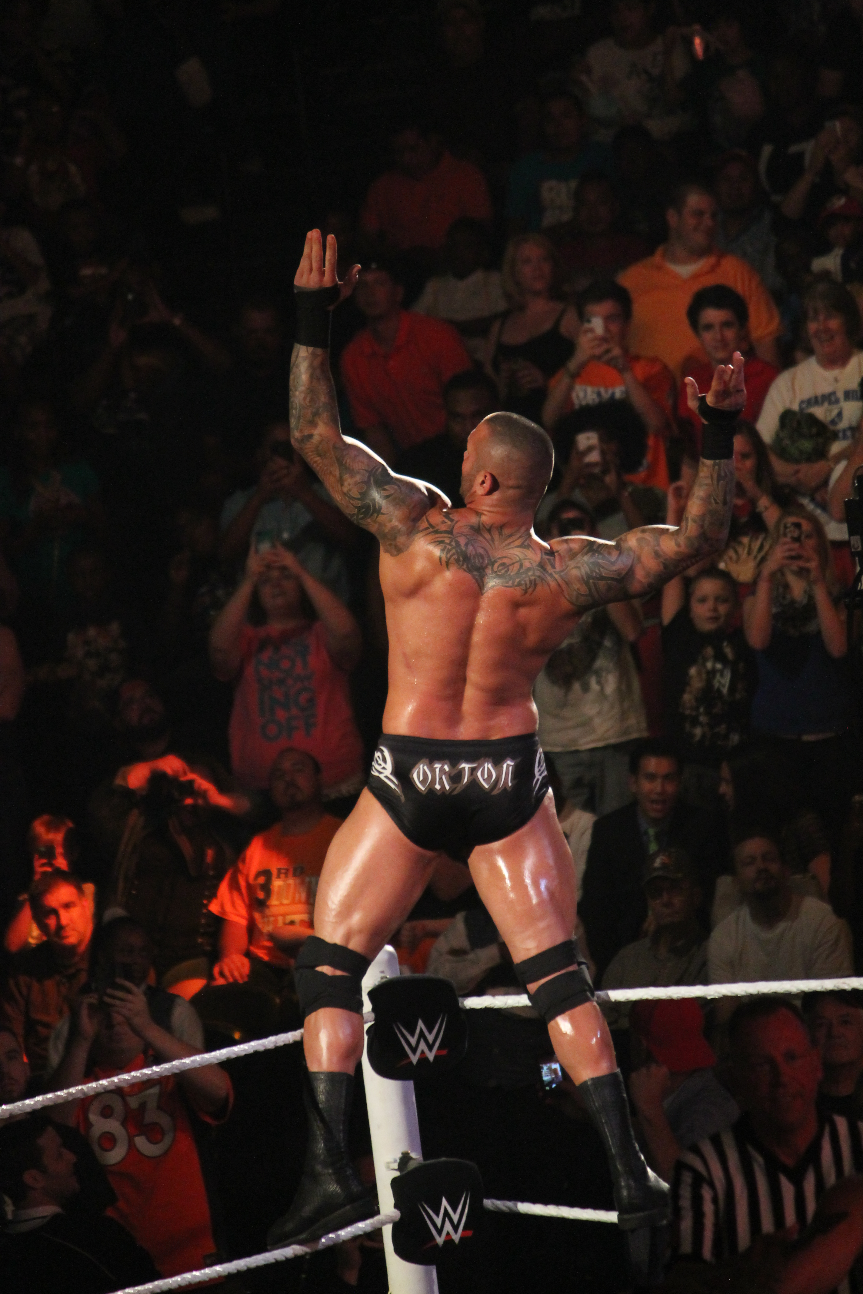 Randy Orton performing his signature ring entrance pose on the middle rope